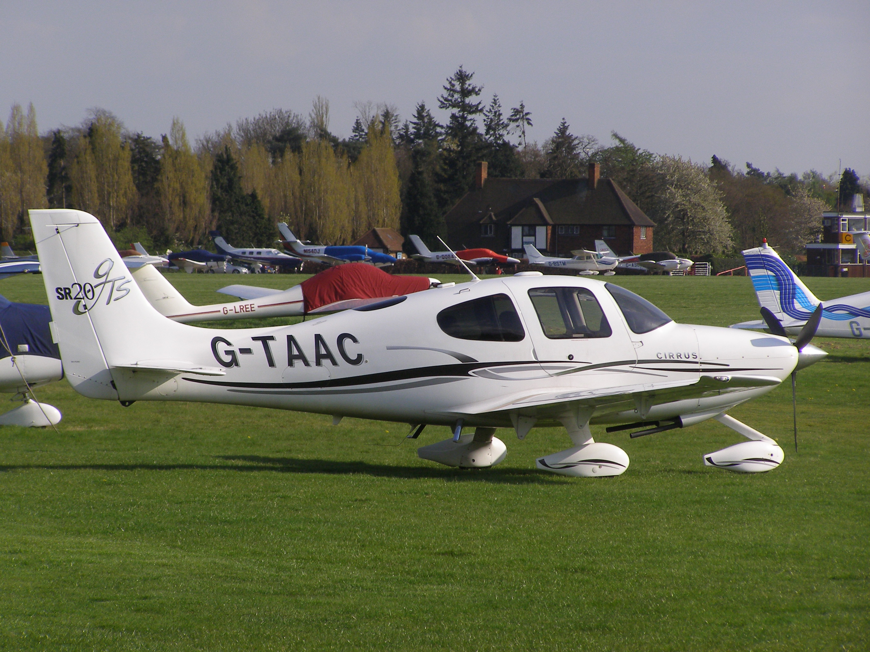 Cirrus SR20 #1694 (registration G-TAAC) at Denham Airfield, England